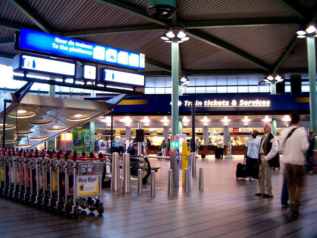 De hal van Schiphol Plaza/NS (Amsterdam Airport Schiphol, The Netherlands)